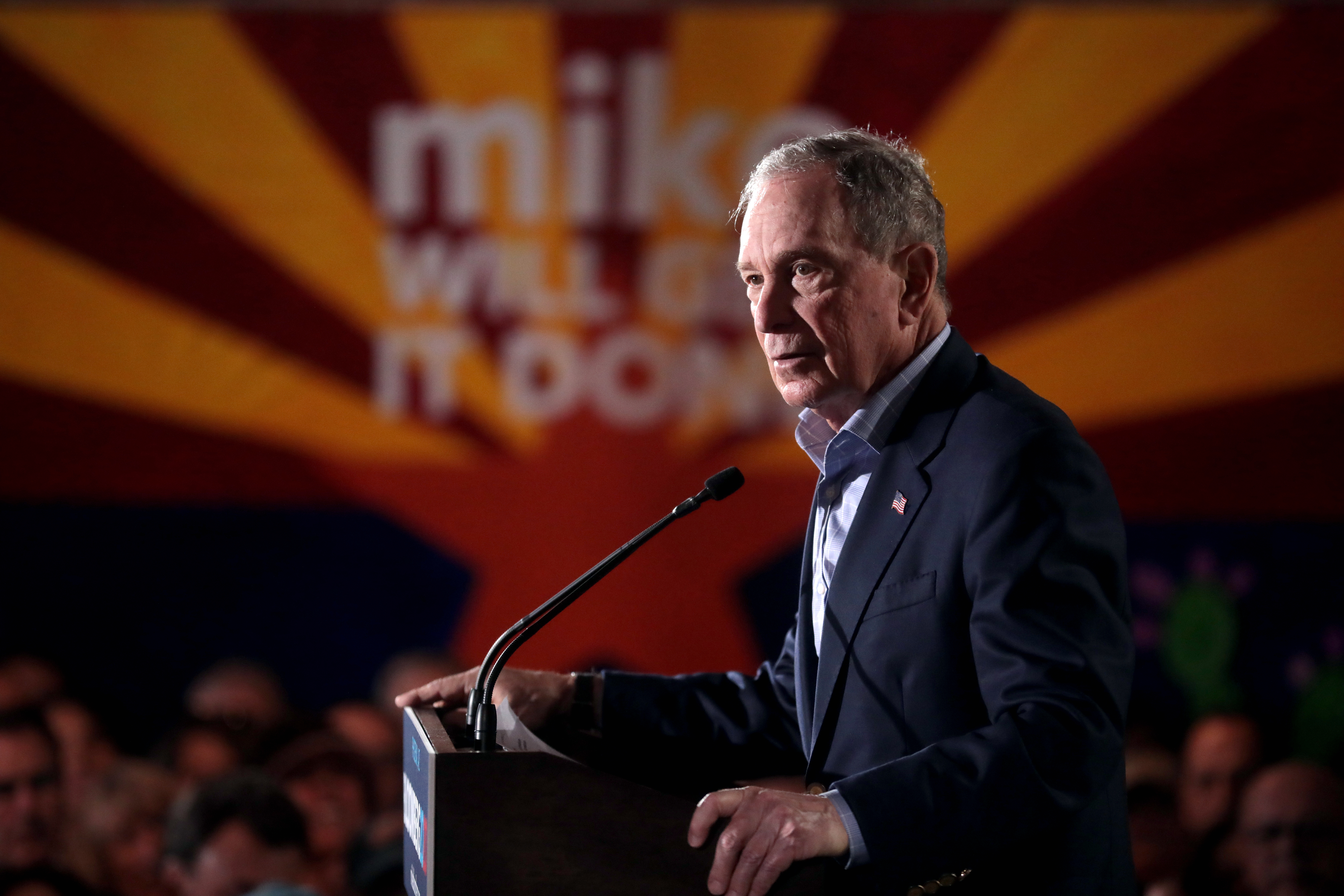 Former Mayor Mike Bloomberg speaking with supporters at a campaign rally at Warehouse 215 at Bentley Projects in Phoenix, Arizona.